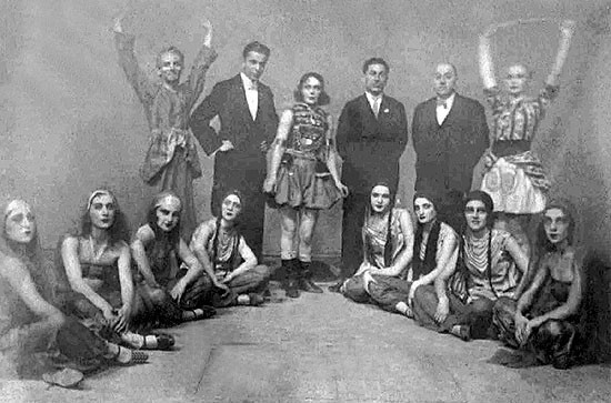 Afrasiyab Badalbeyli with perfomers Polovtzian dance